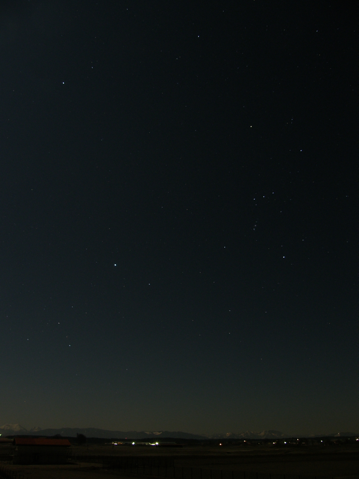 Orion's belt stars point towards Sirius; Olympus SP-550UZ, 5 sandwiched shots.